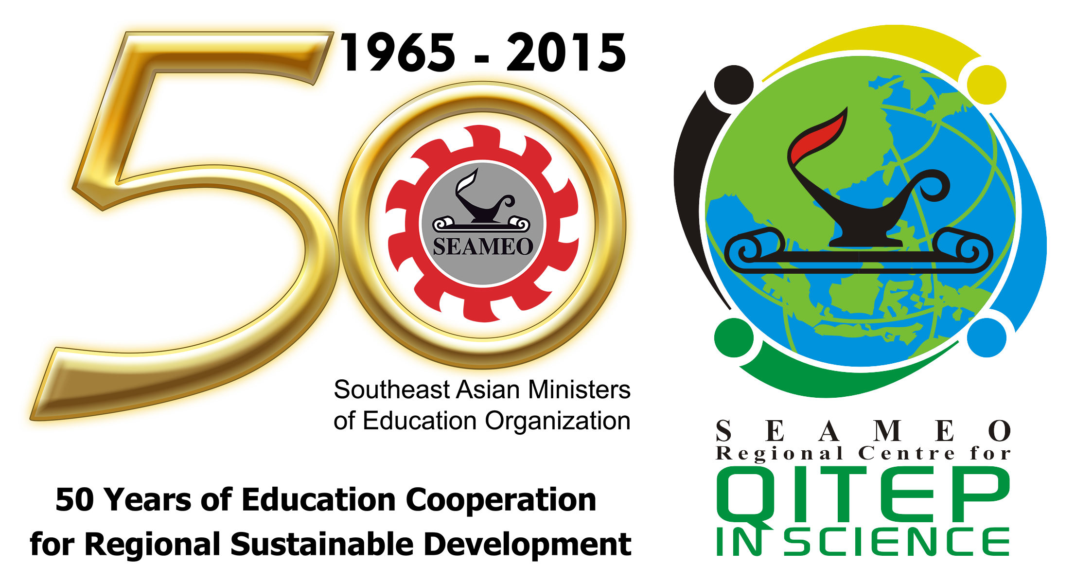 logo seaqis